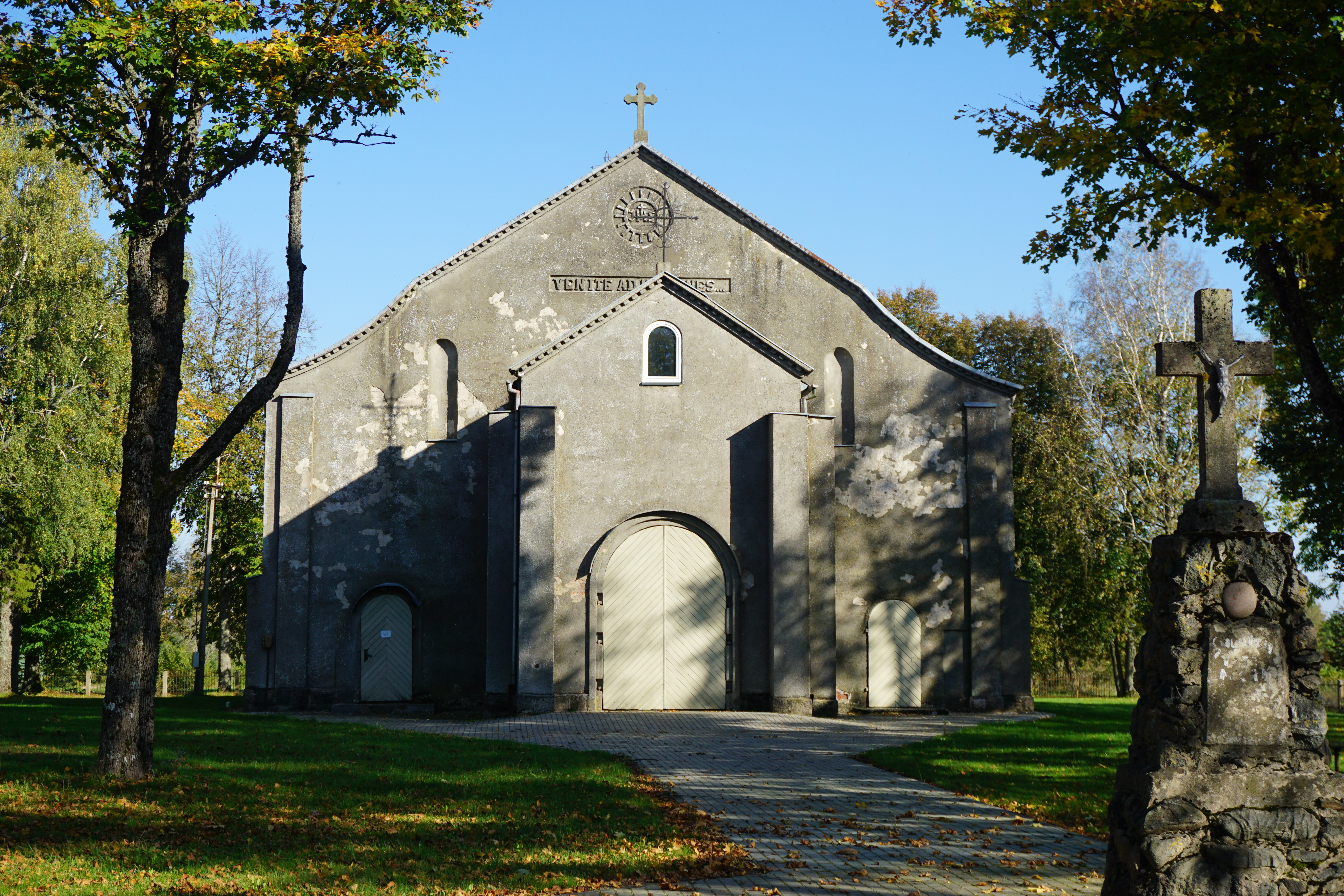 St. Isidore church in Renavas, Lithuania, 2017